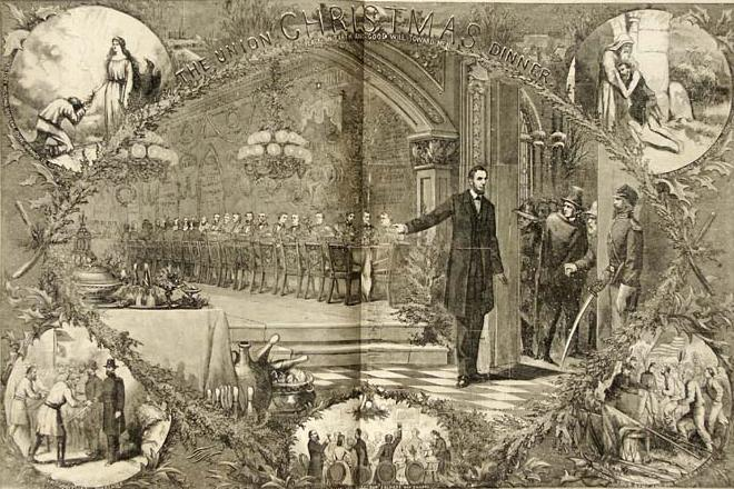 Thomas Nast illustration of Abraham Lincoln welcoming Confederates to Christmas dinner, from Christmas 1864.